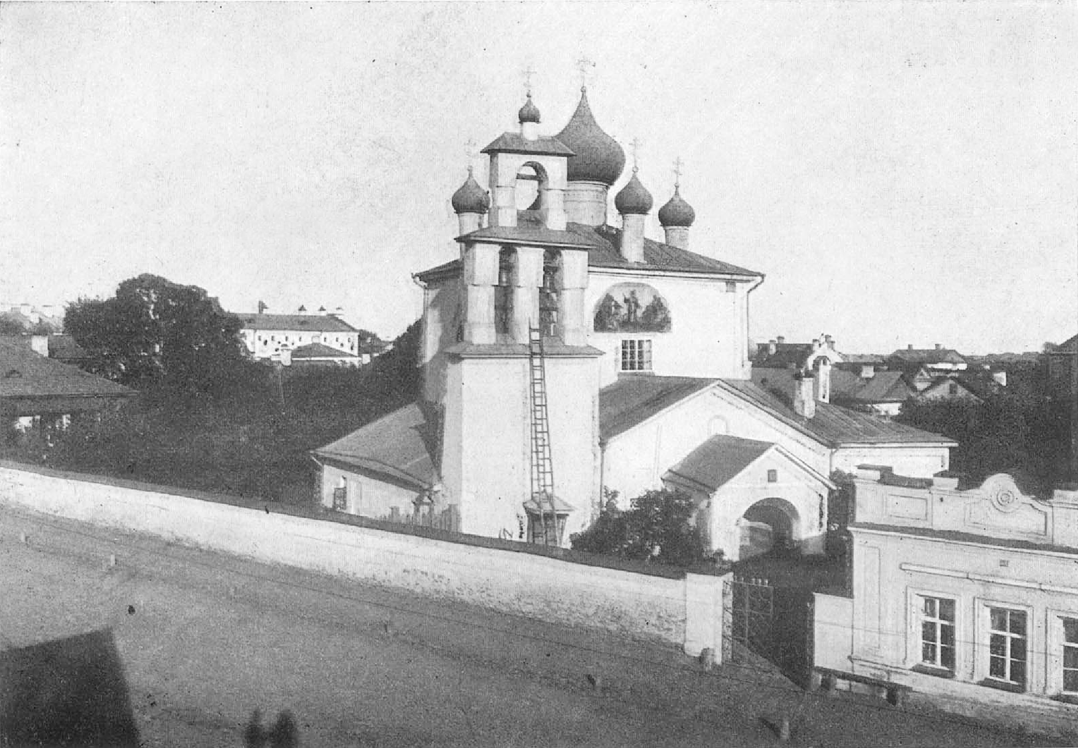 Saint Nicholas church ot Torga in Pskov at the beginning of the XX century